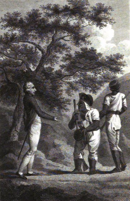 "Old Cudjoe making peace, illustration from The History of the Maroons (1803) by Robert Charles Dallas, showing the Maroon leader Cudjoe.